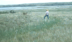 The Arzberger Site, a National Historic Landmark in Hughes County, South Dakota, United States.